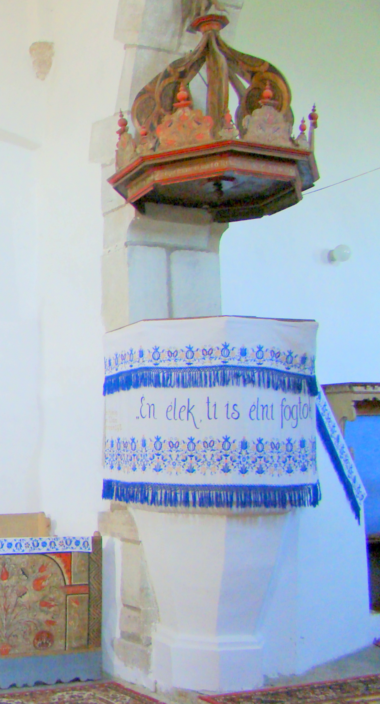 Reformed church in Șintereag, Bistrița-Năsăud county, Romania